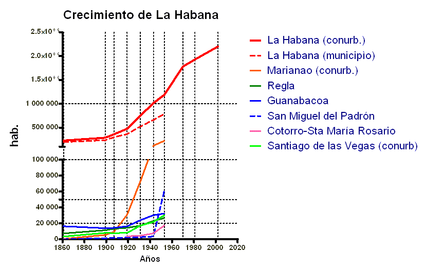 Population growth of Havana conurbation